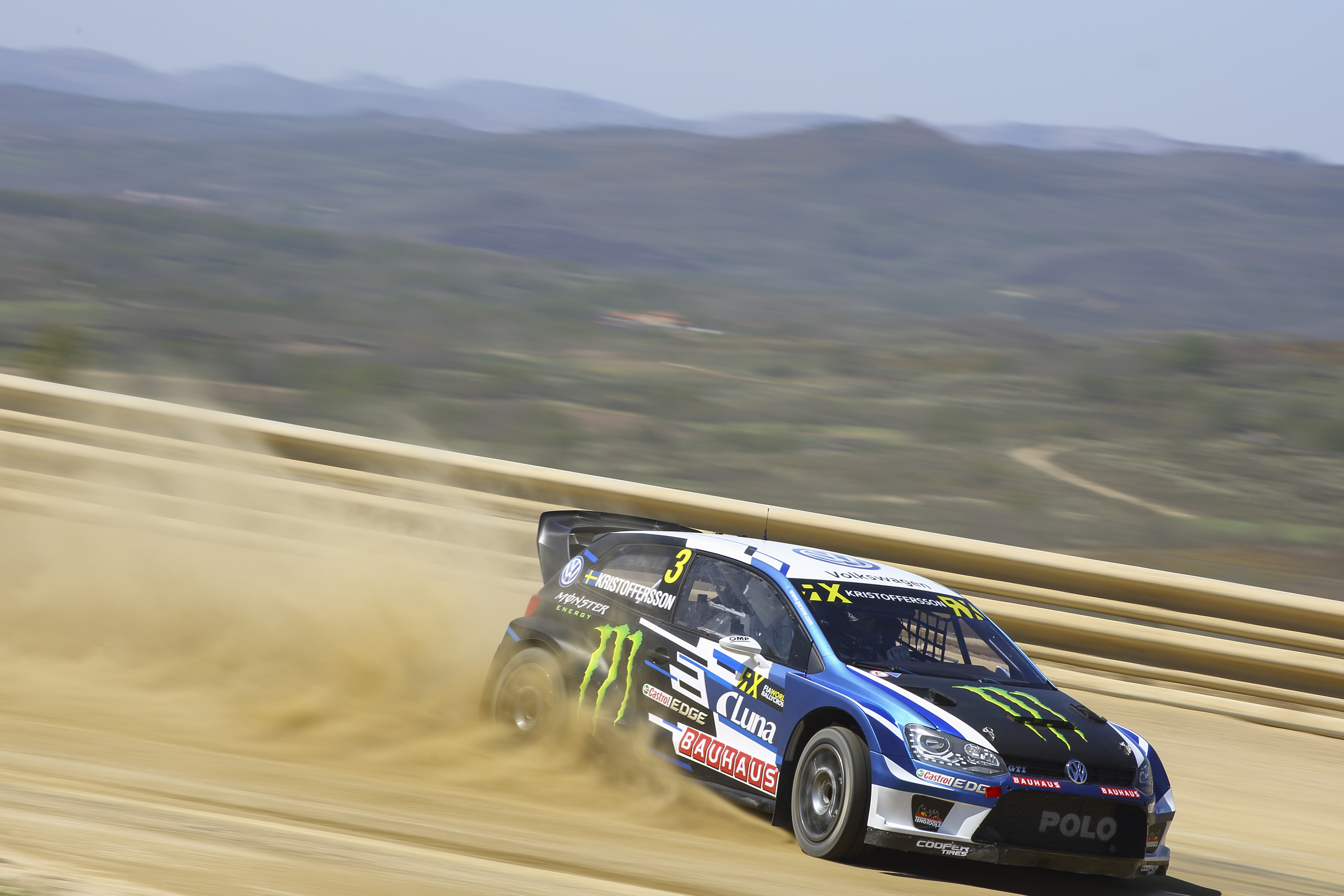 FIA World RX of Portugal 2017 in Montalegre